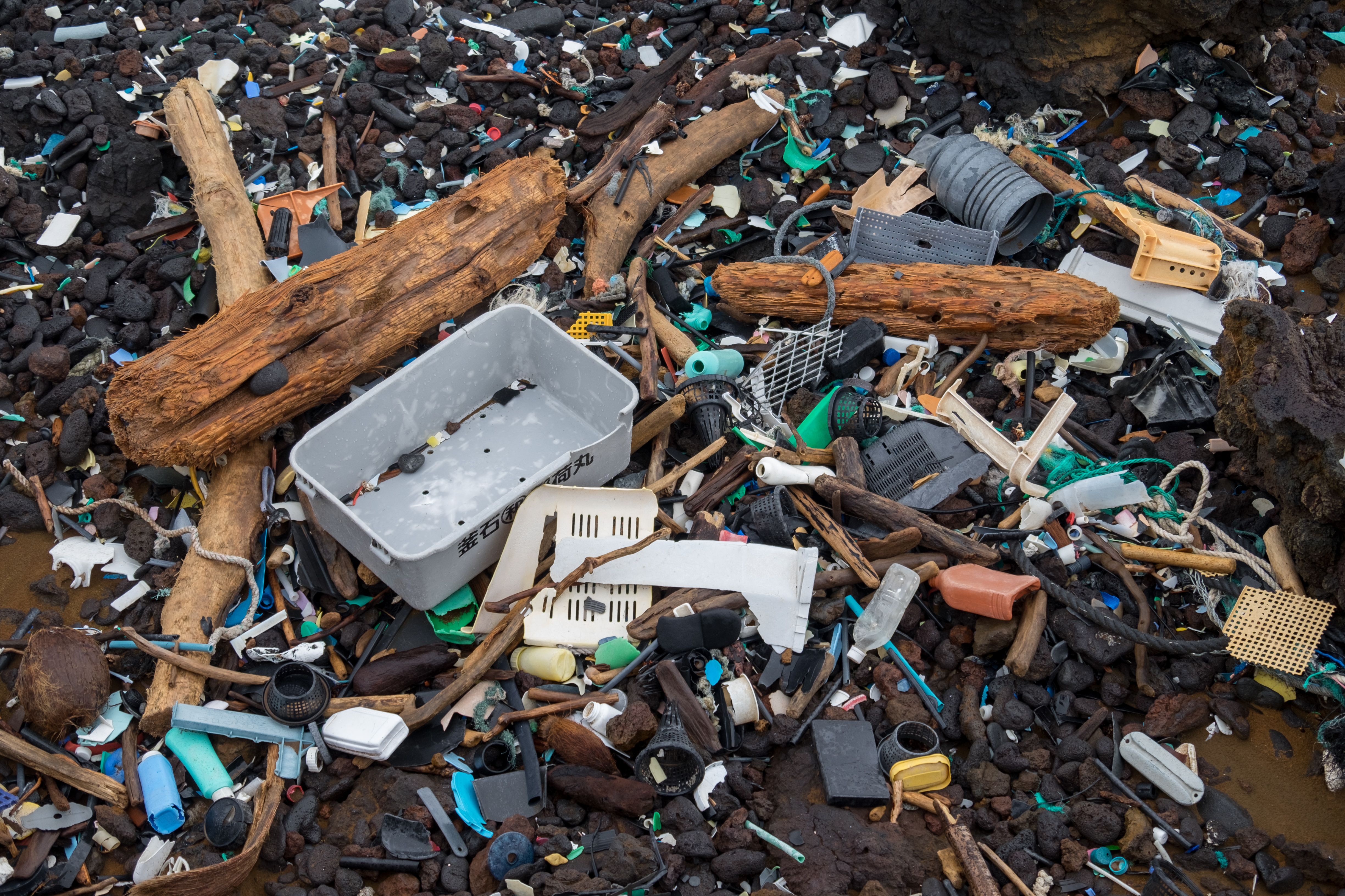 The Great Pacific garbage patch causes vast quantities of trash to wash ashore at the south end of Hawaii. Very sad to see such scenic coastline spoiled by so much debris. See also: Kamilo Beach (Atlas Obscura).